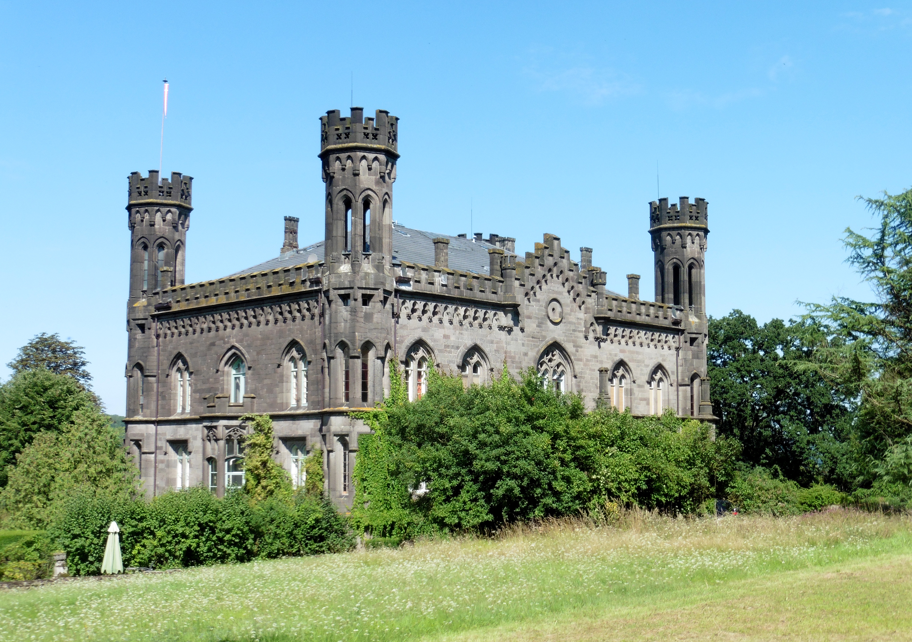 Castle Friedelhausen (built 1852-1856 in the English neo-Gothic style) near the town Lollar in the district of Giessen in Hesse, Germany. Seen from Southeast.